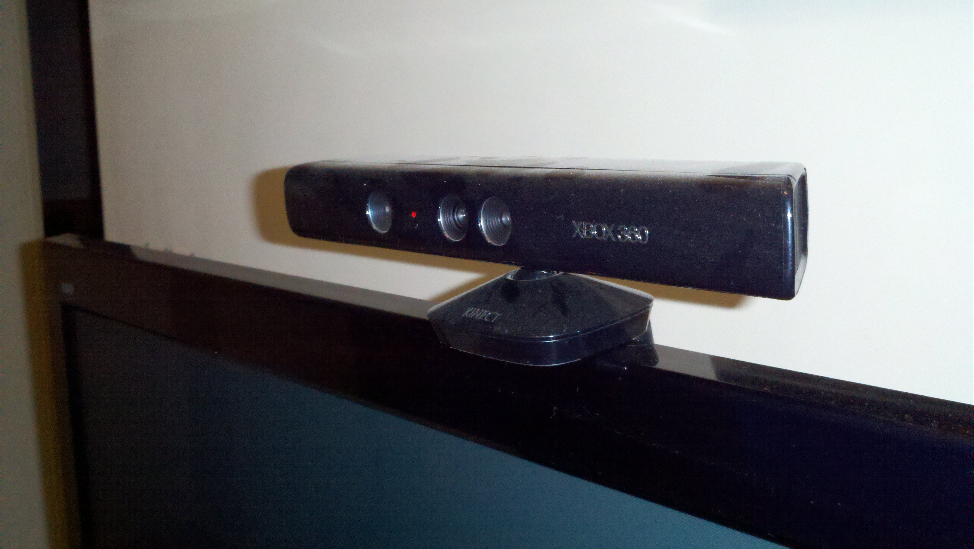 Microsoft XBOX 360 Kinect Sensor. it can Exposure on or under the TV Kinect has 2 camera and an IR projector.: Left: (IR CMOS) Microsoft / X853750001 / VCA379C7130 Center: (Color CMOS) VNA38209015 Right: (IR Projector) OG12 / 0956 / D306 / JG05A the Kinect is able to perform immediate, 3D incorporation of real objects into on-screen images. that the infrared cam is 320x240 and the RGB cam is 640x480. 16-bit audio @ 16 kHz Tracks up to 6 people, including 2 active players